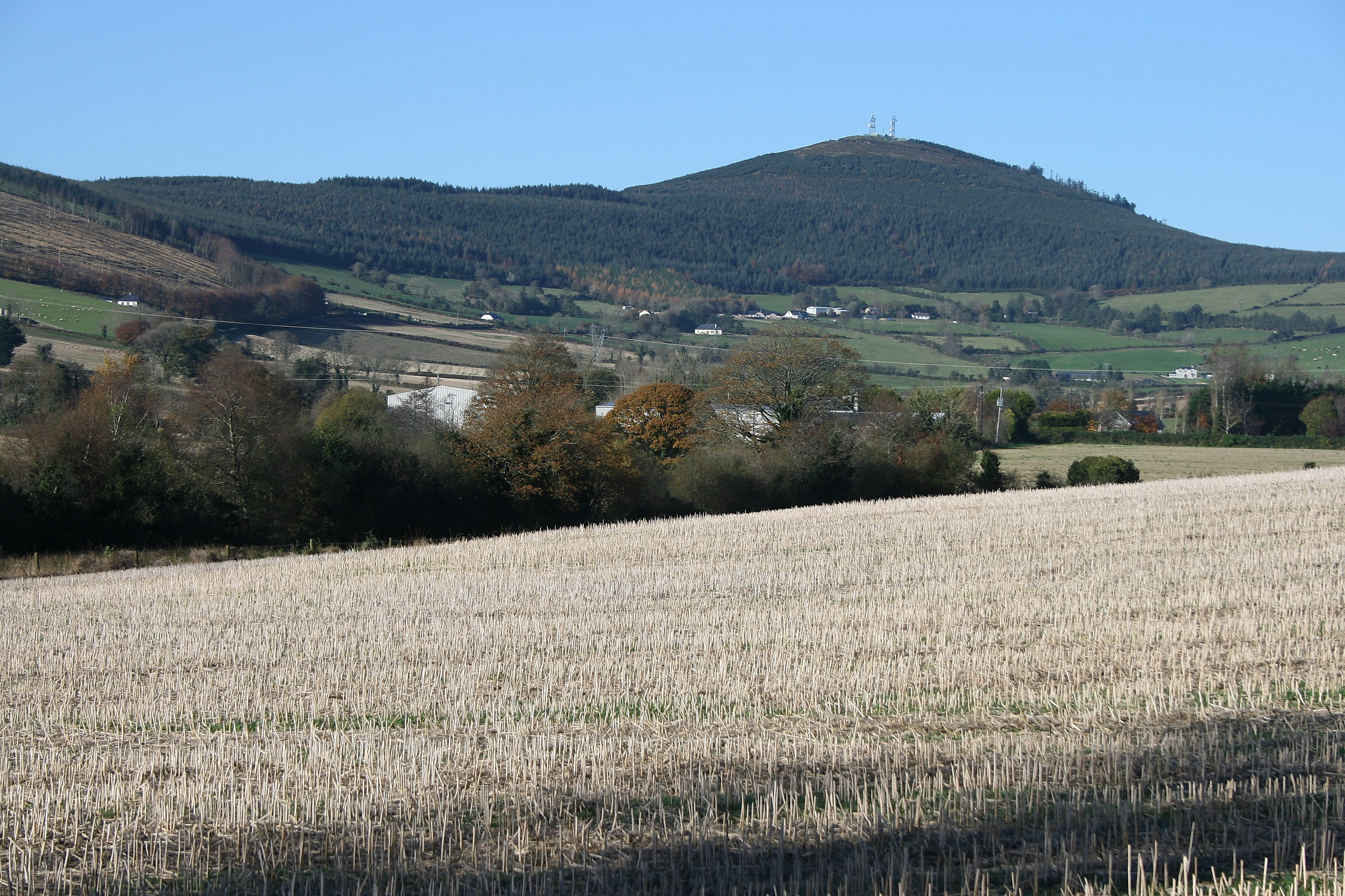 Slieveboy above Askamore village to the north, in County Wexford, Ireland; pictured from the east at Camolin Park.